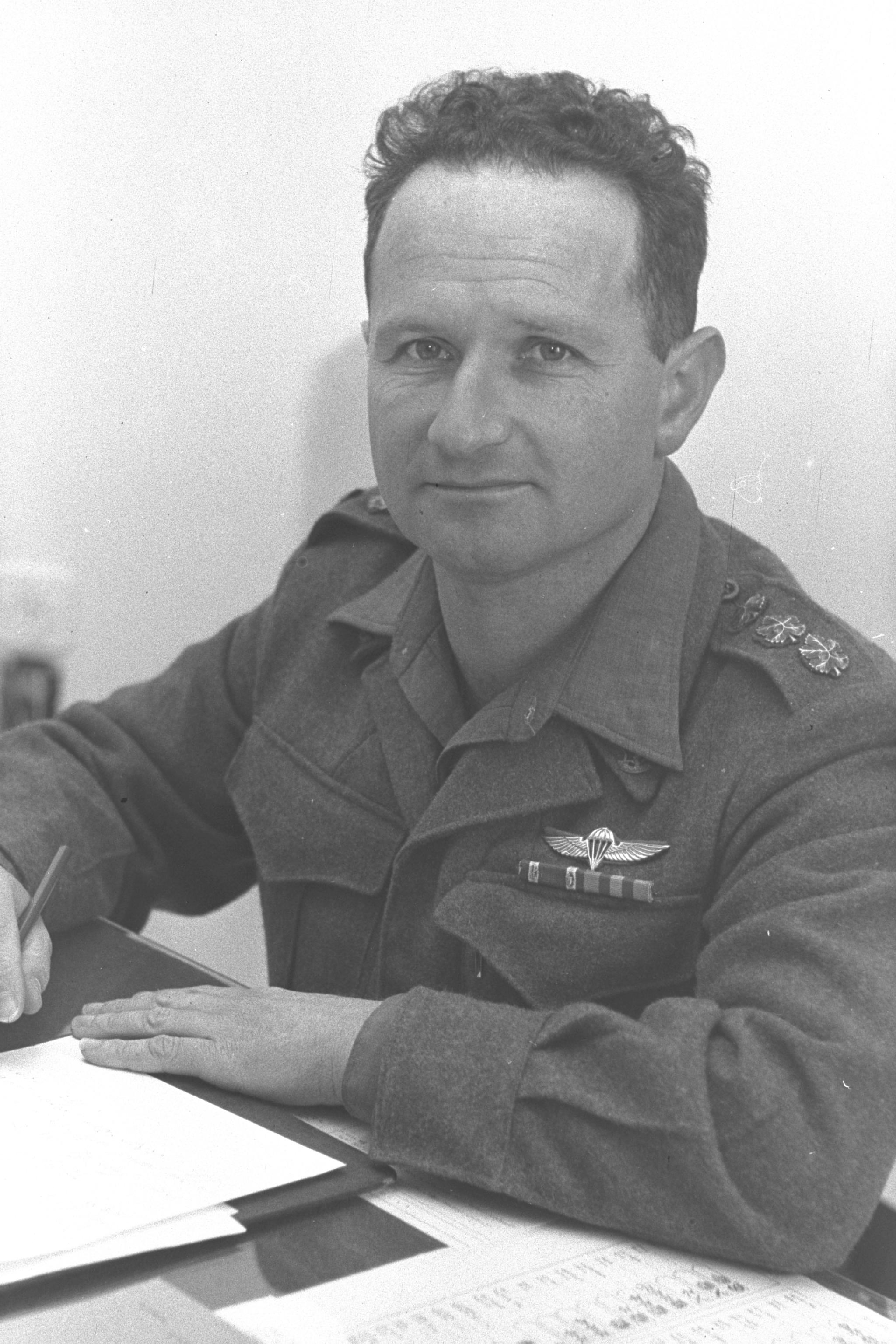 Colonel Uzi Narkis just before leaving Israel to serve as Military Attache in France.